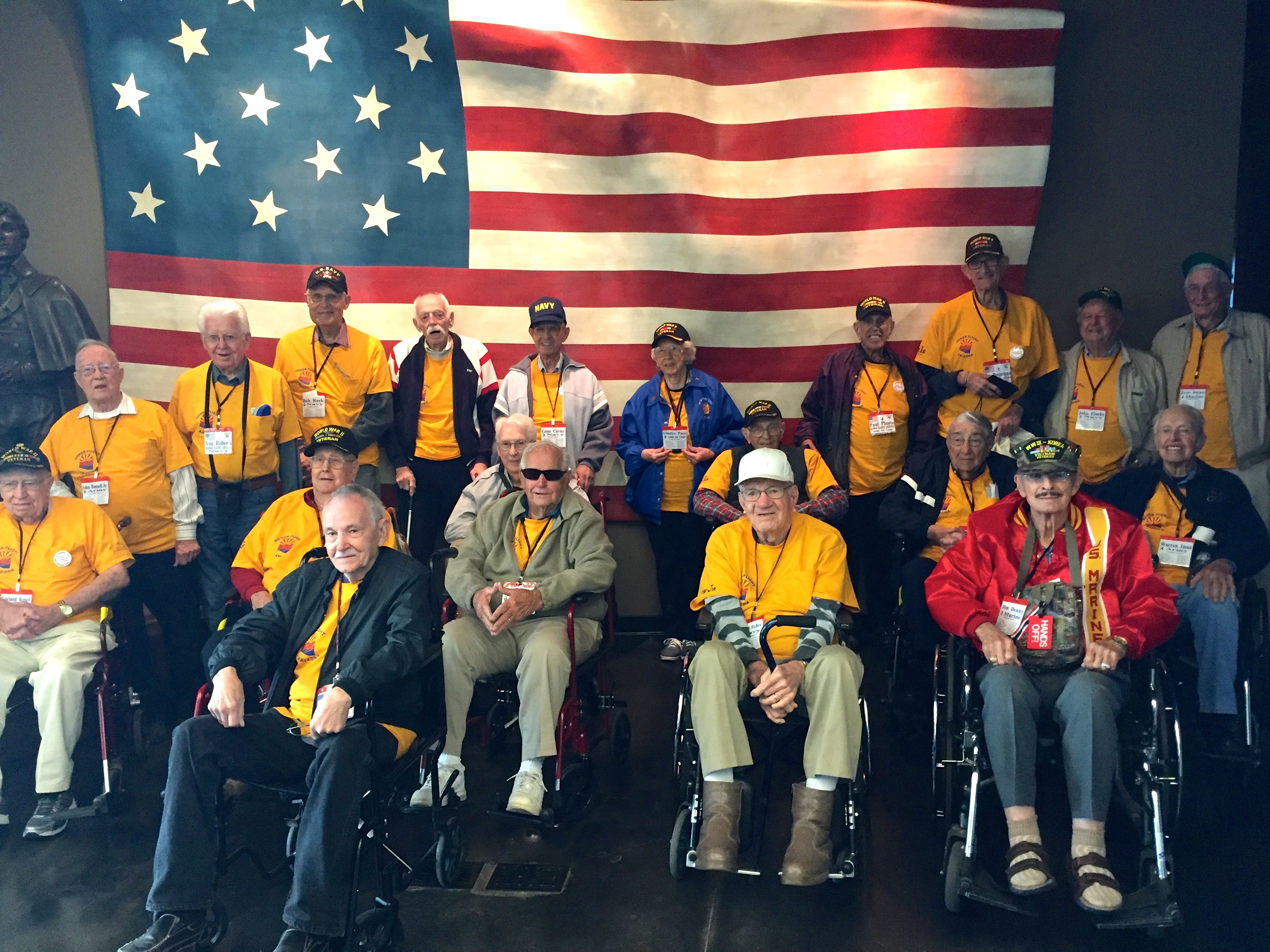 Honor Flight Arizona WWII Veterans pose in front of flag at Fort McHenry. The two day trip to Washington D.C. from Phoenix, AZ was a thrill of a lifetime for them, including my brother-in-law Warren Imus, in the far right wheelchair. He passed away a few months later. I had the honor of being his Guardian.